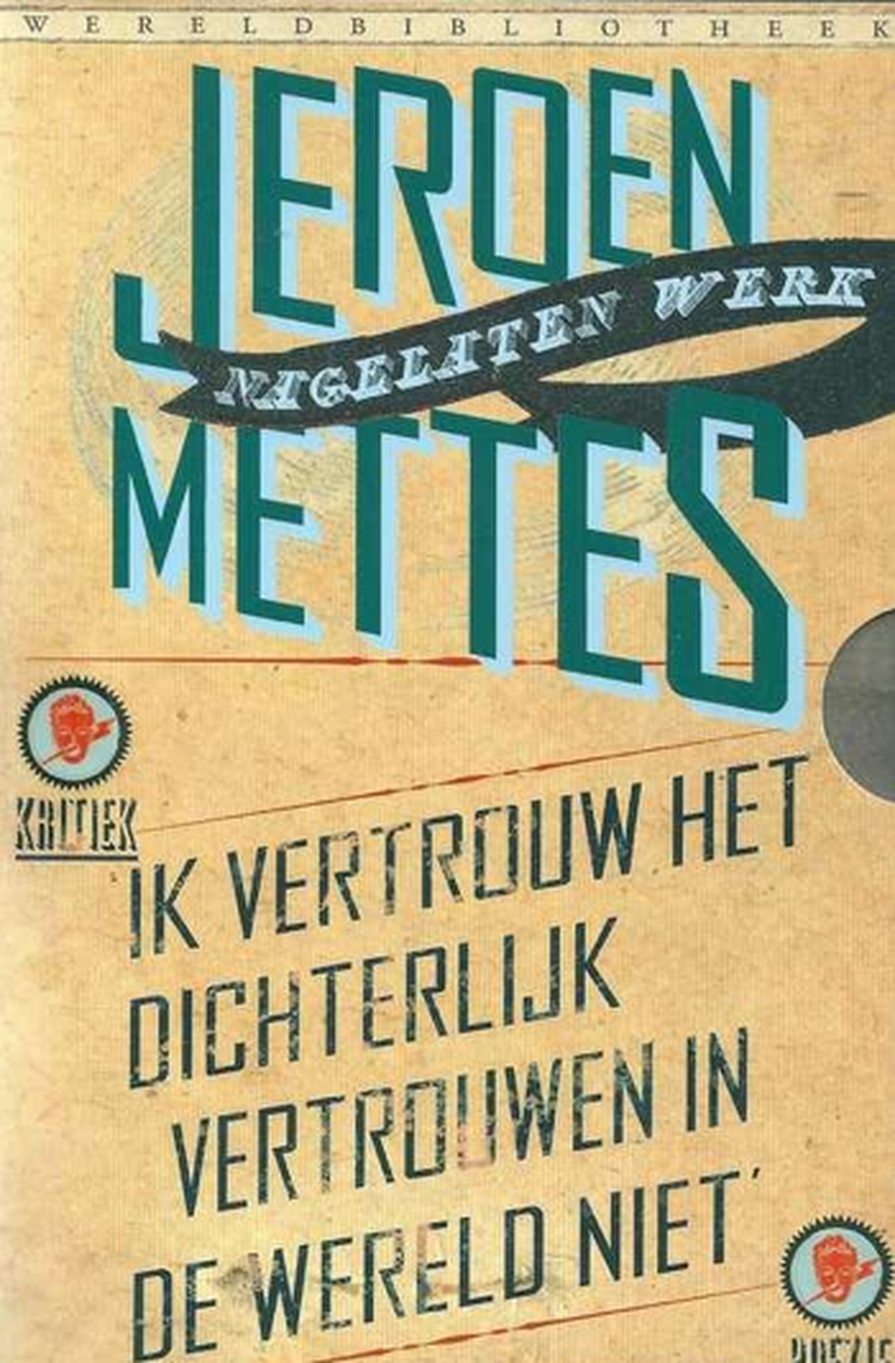 cover of "Nagelaten Werk" by Jeroen Mettes